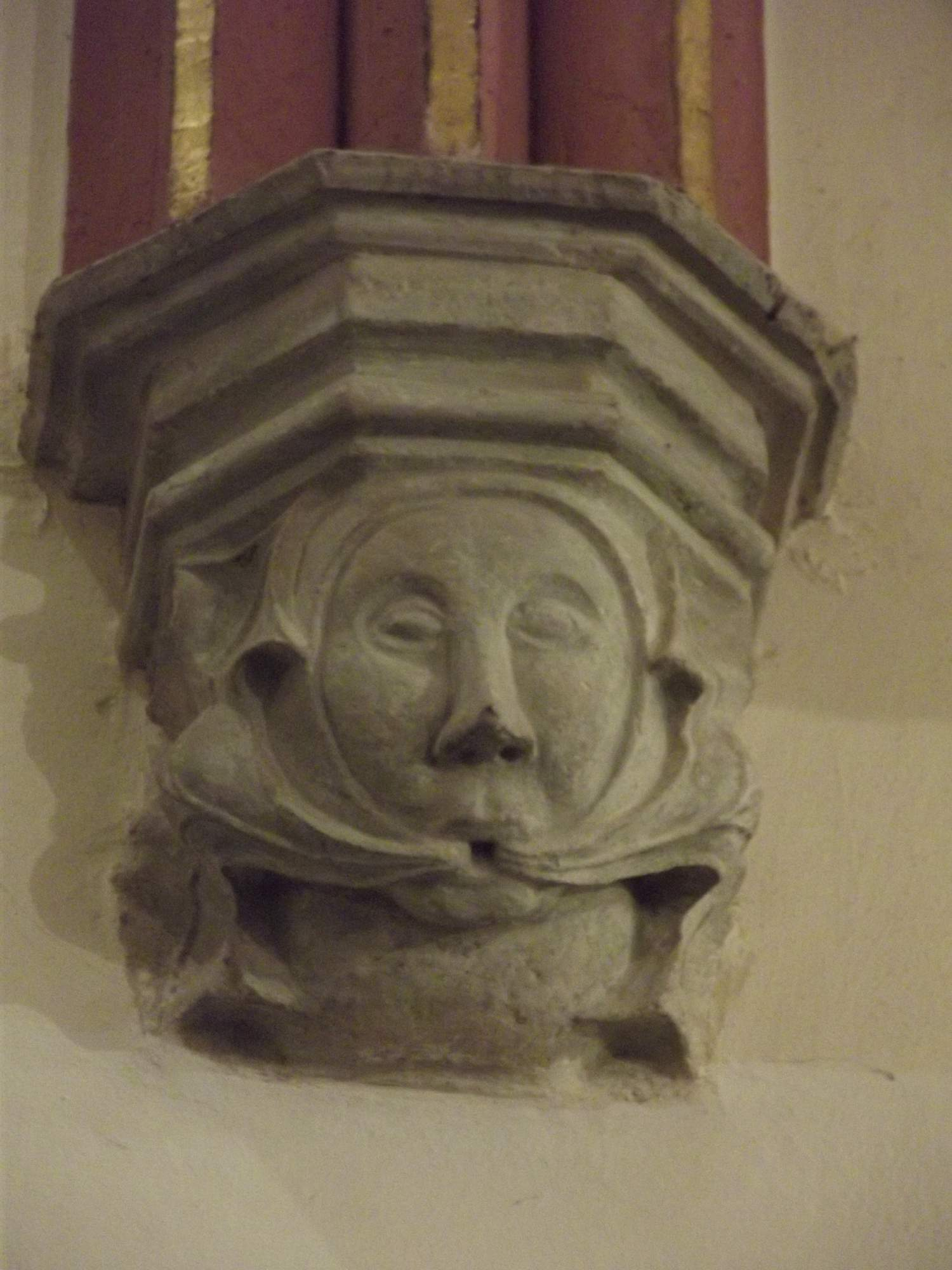 mascaron Cathedral of the Holly Spirit Hradec Králové